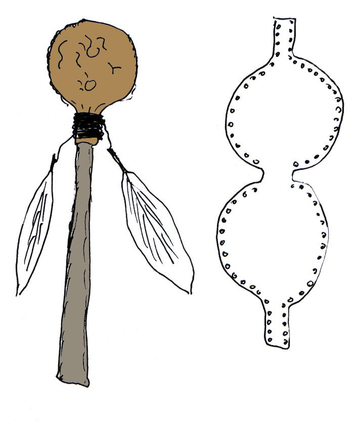 Rattle and base pattern to making